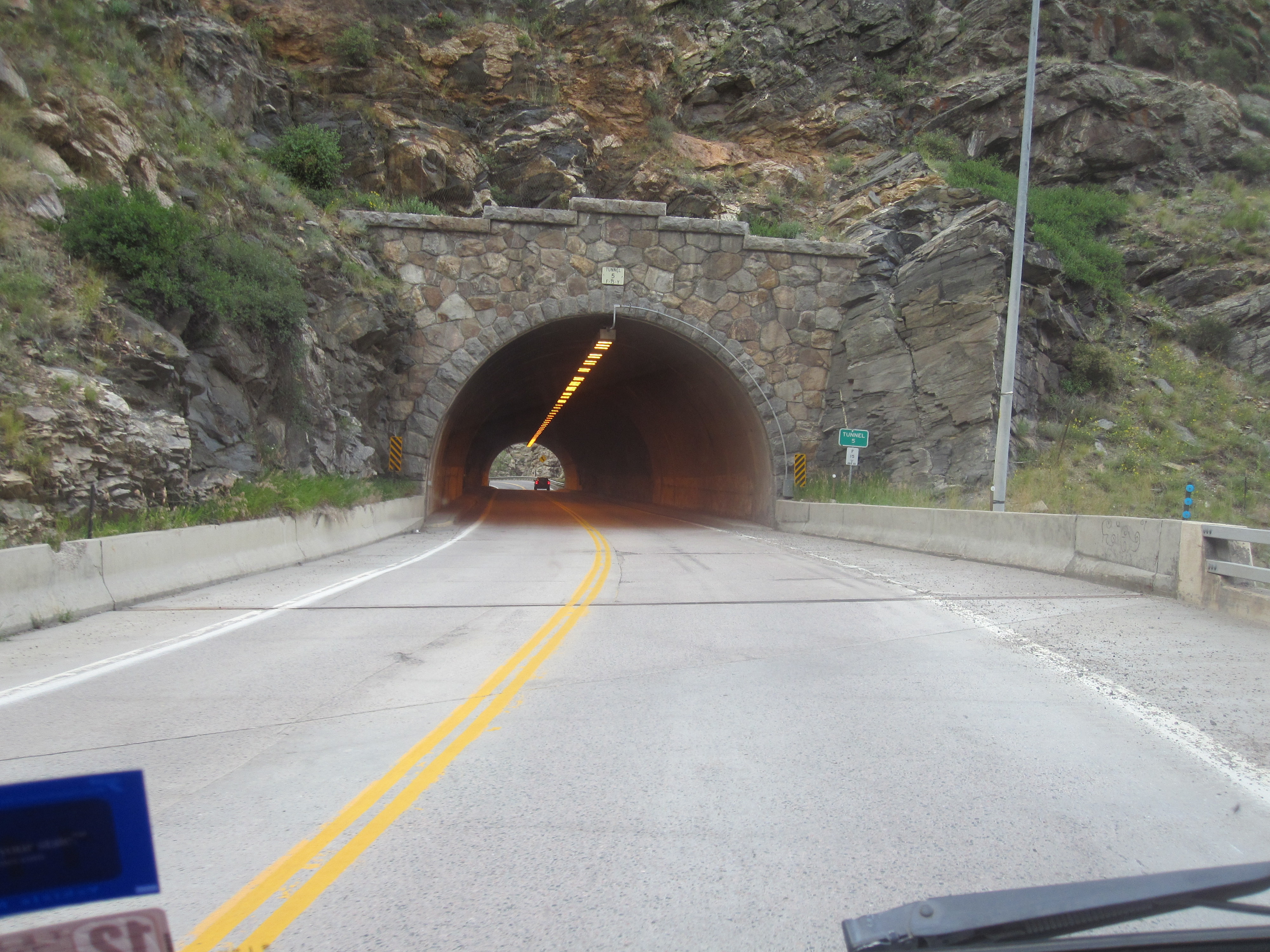 I took photo with Canon camera near Idaho Springs, CO.